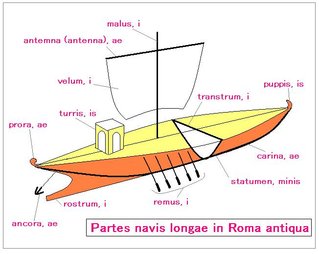 structural figure of Ancient Roman warship (galley) by Latin.